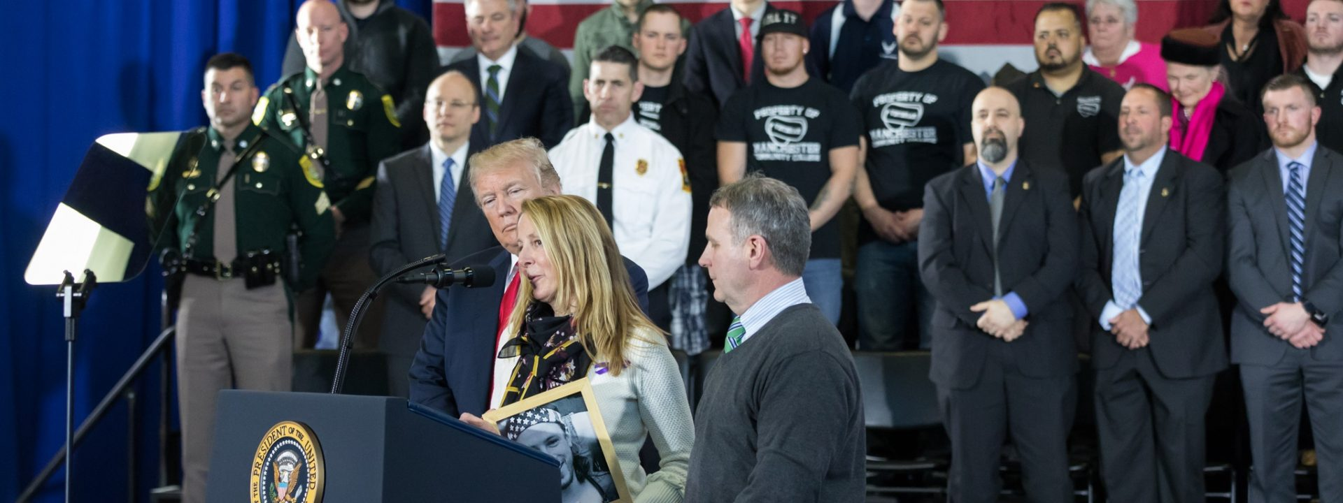 On National Opioid Takeback Day on April 28th, Donald Trump spoke about the son of Jean and Jim Moser, who lost their son Adam to an opioid overdose.